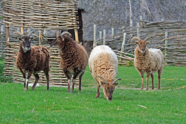 Soay sheep of several wool colors at the Cranborne Ancient Technology Centre